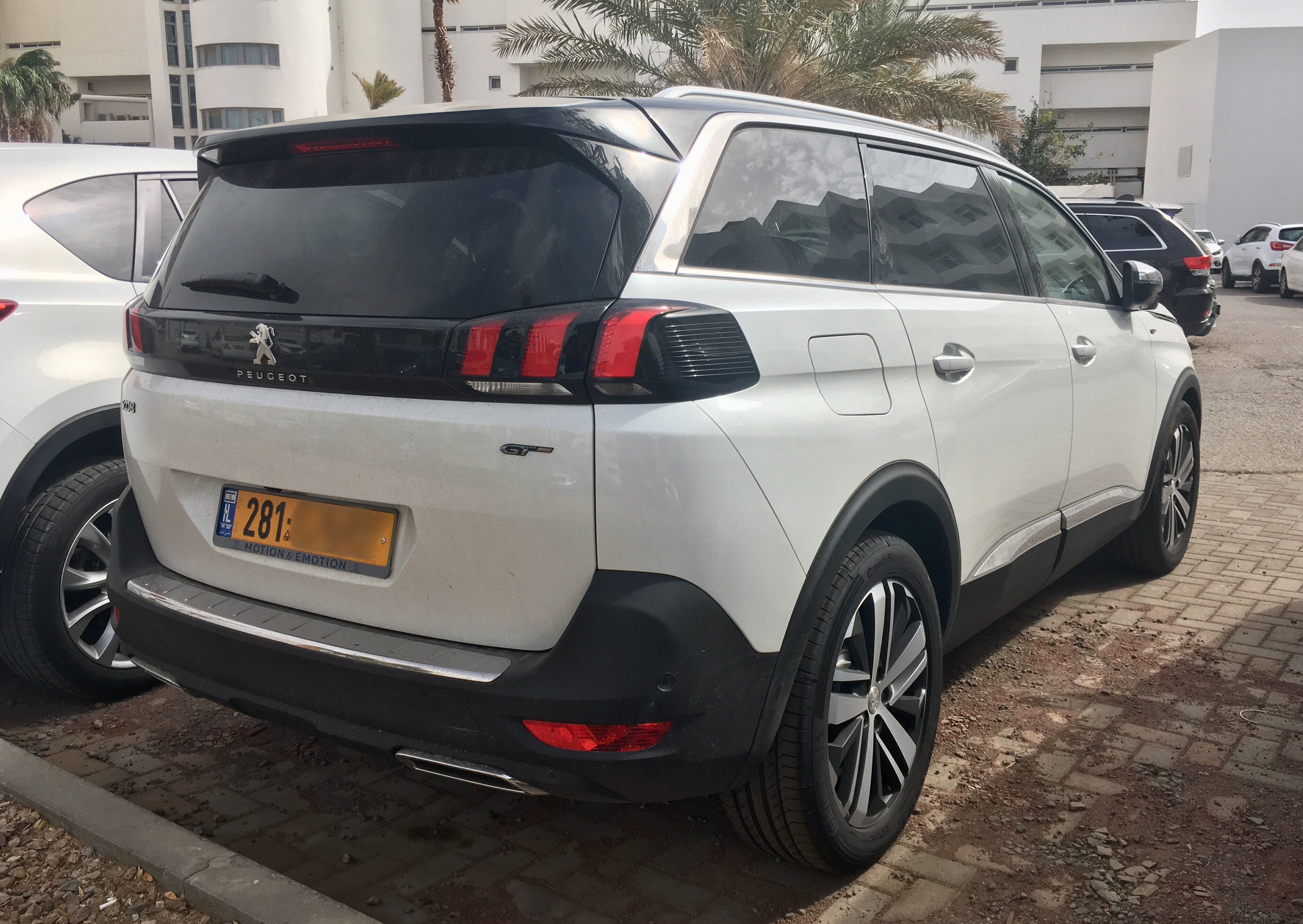 5008 MKII